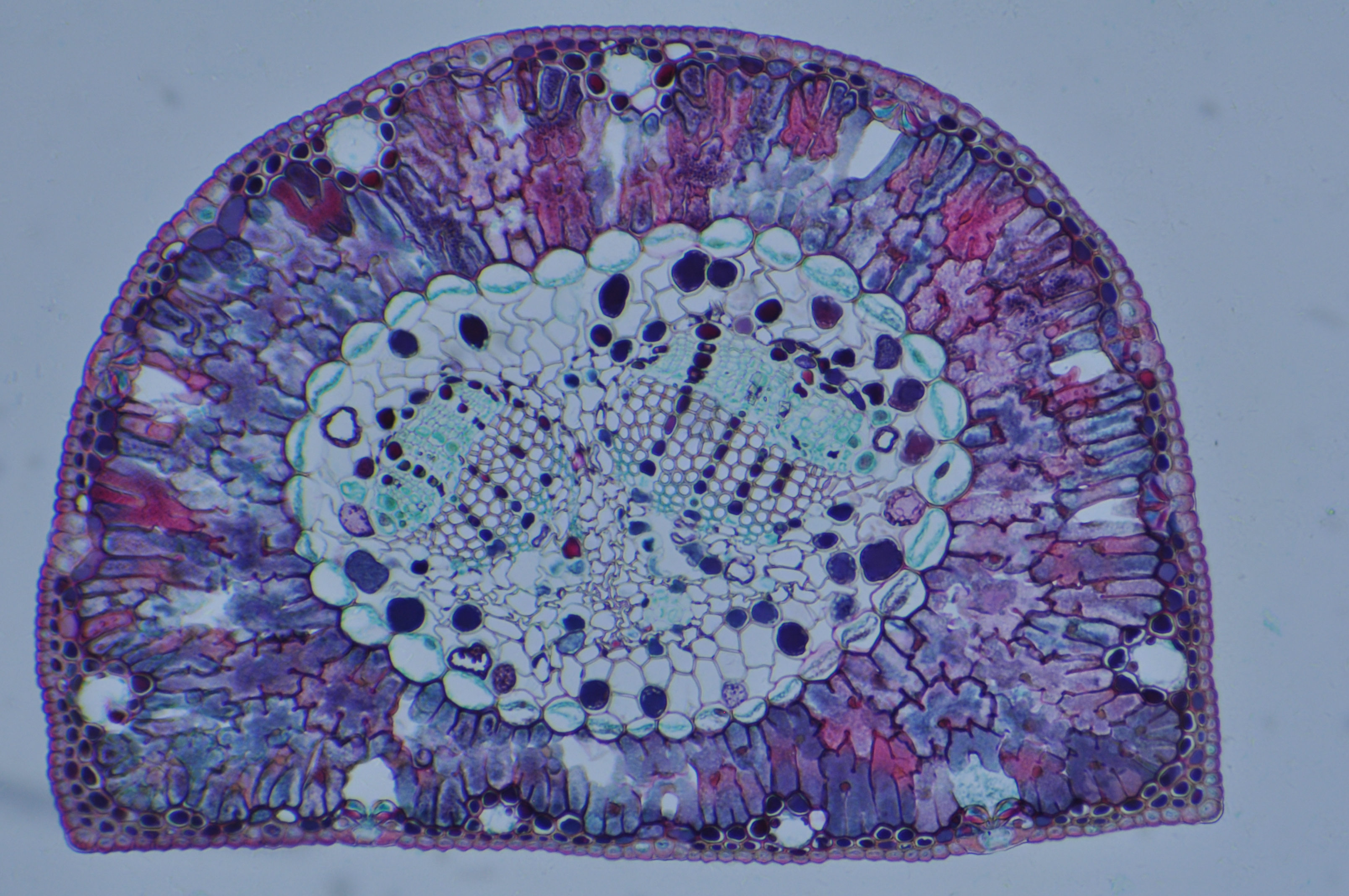 Cross section of Pinus sylvestris leaf seen in light microscope